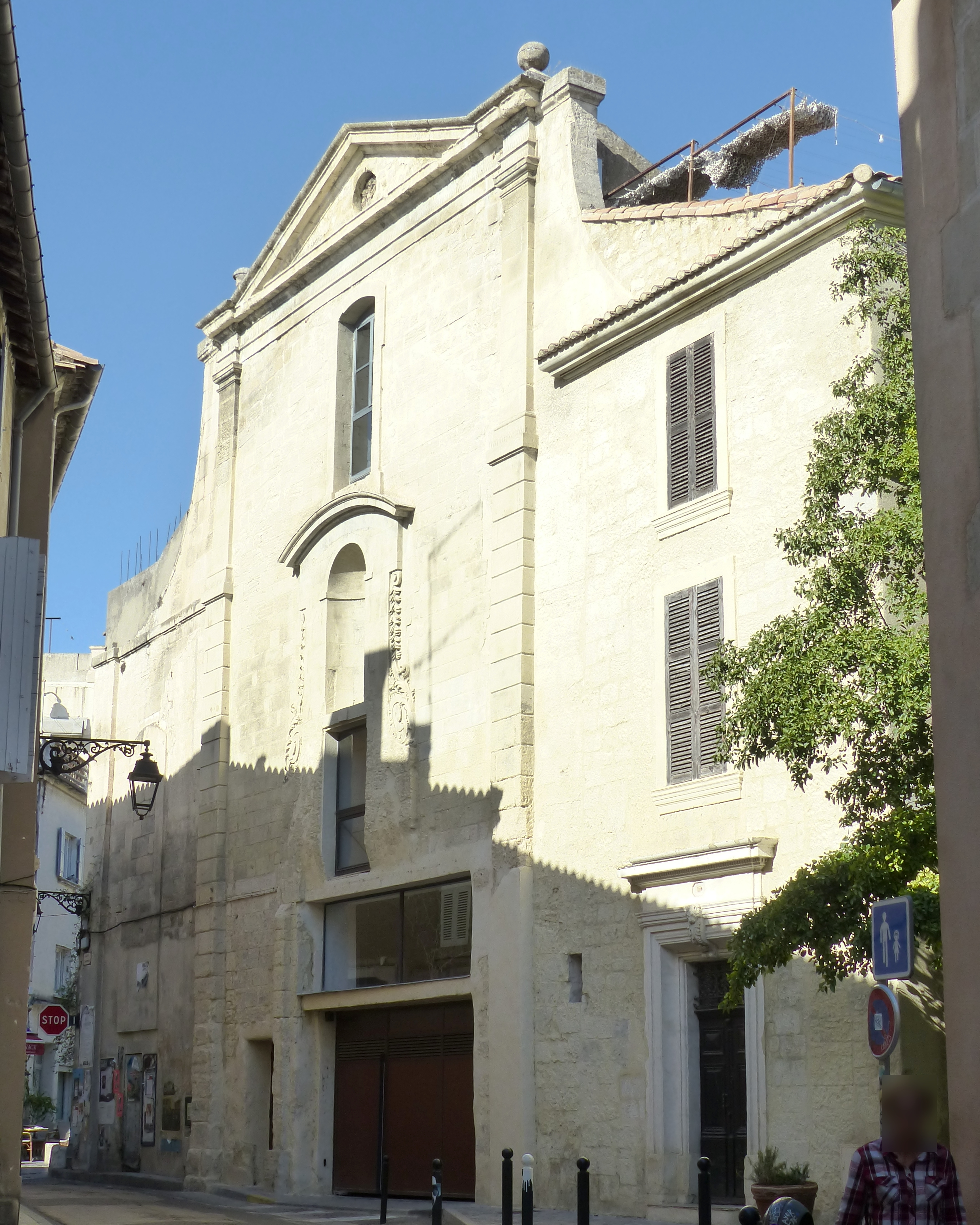 Arles (Bouches-du-Rhone, Provence, France), in the heart of the Roquette district, former Sainte-Croix church, now desecrated; the oldest parts of which date from the twelfth century as a priory under the Saint-Trophime cathedral ; at the 13th century church of the largest of the two parishes of the district of Vieux Bourg, current Roquette; the facade was redone in 1720. Thereafter the building was flanked by houses.